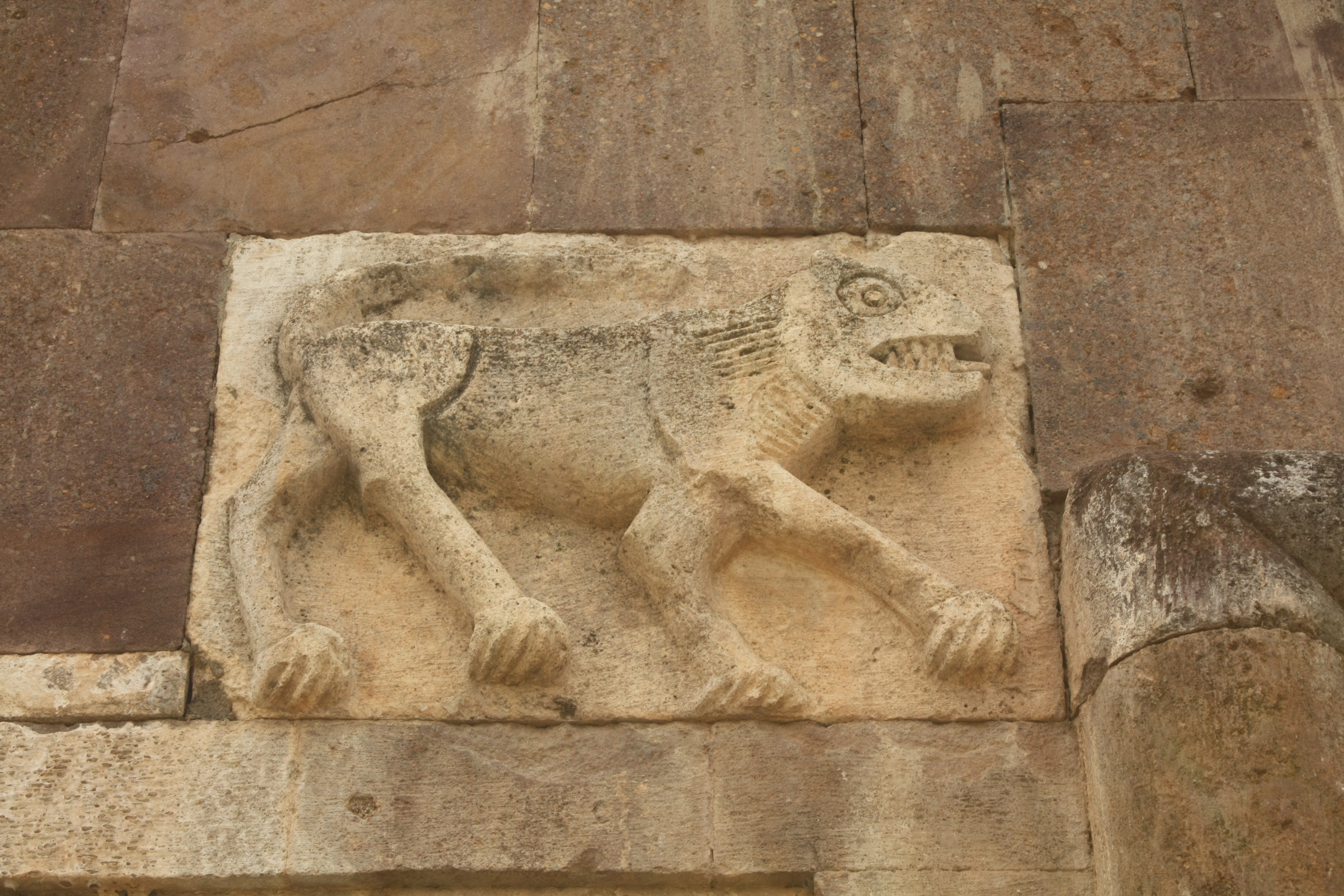 Piece of decor of Gandzasar monastery, Nagorno-Karabakh